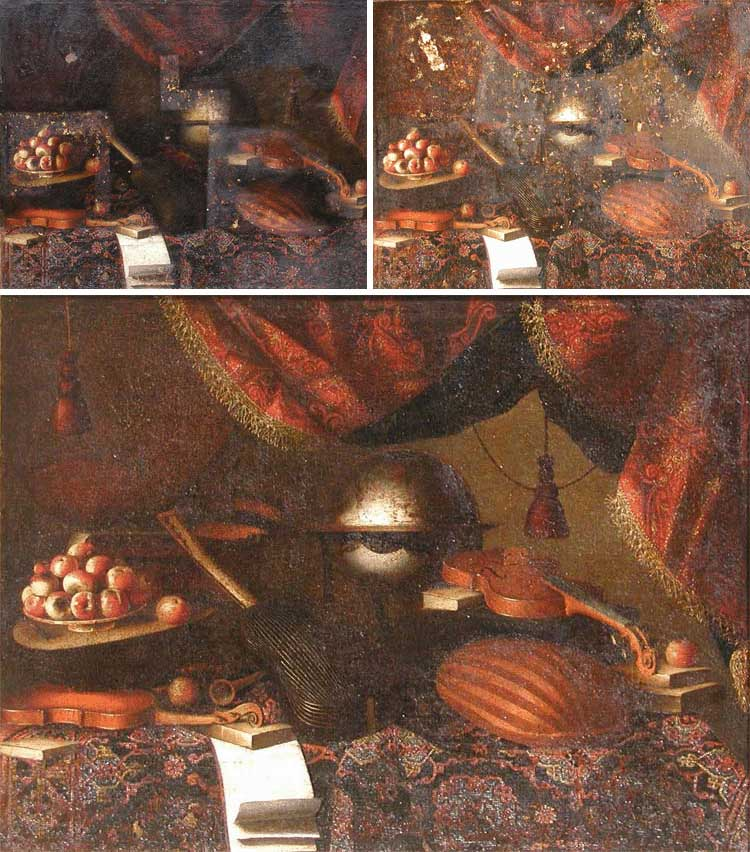 Restored Painting; oil on canvas; by Bartolomeo Better; Italian. 17th-Century. Art Conservation & Restoration by Sergey Konstantinov .